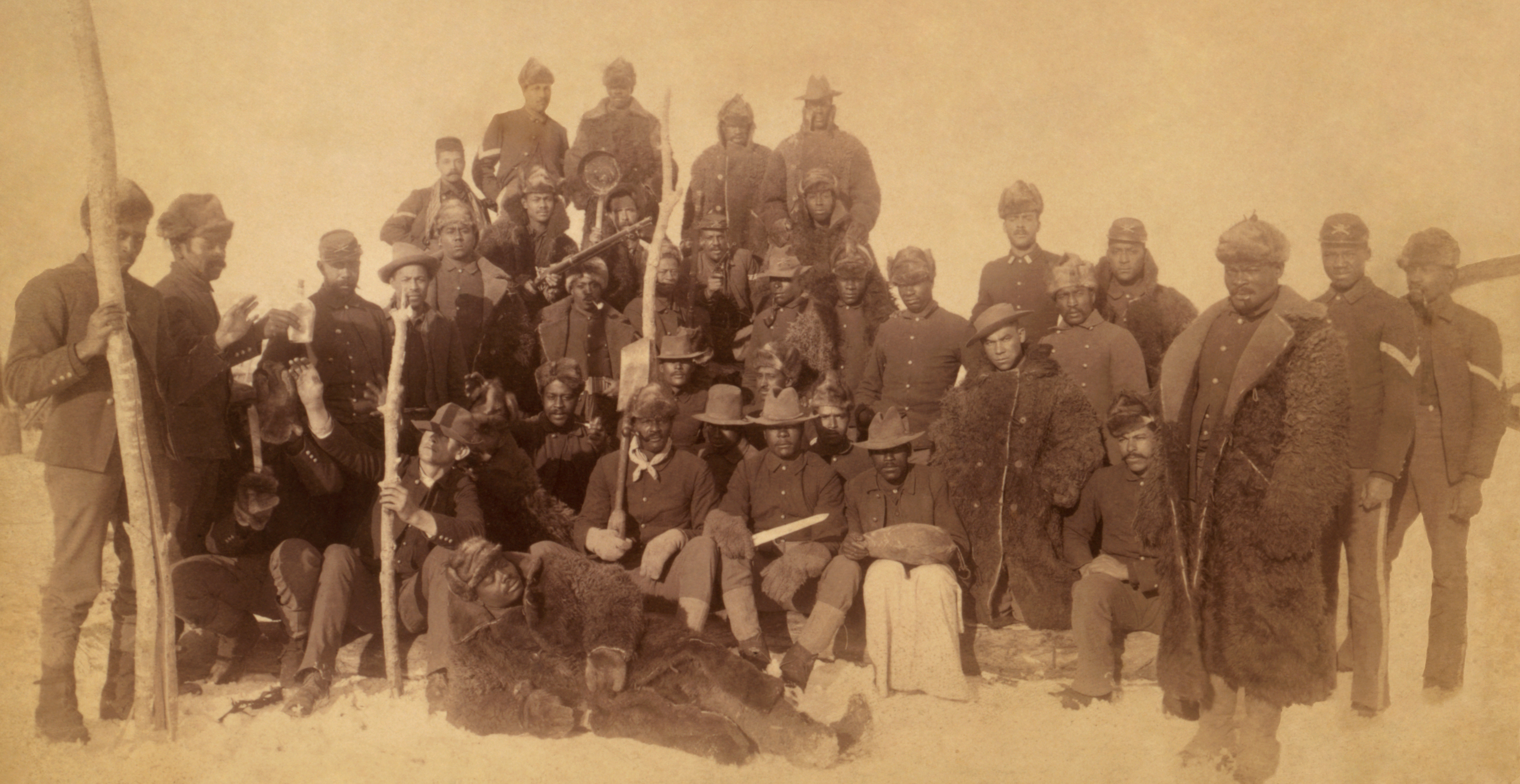 Buffalo soldiers of the 25th Infantry, some wearing buffalo robes, Ft. Keogh, Montana